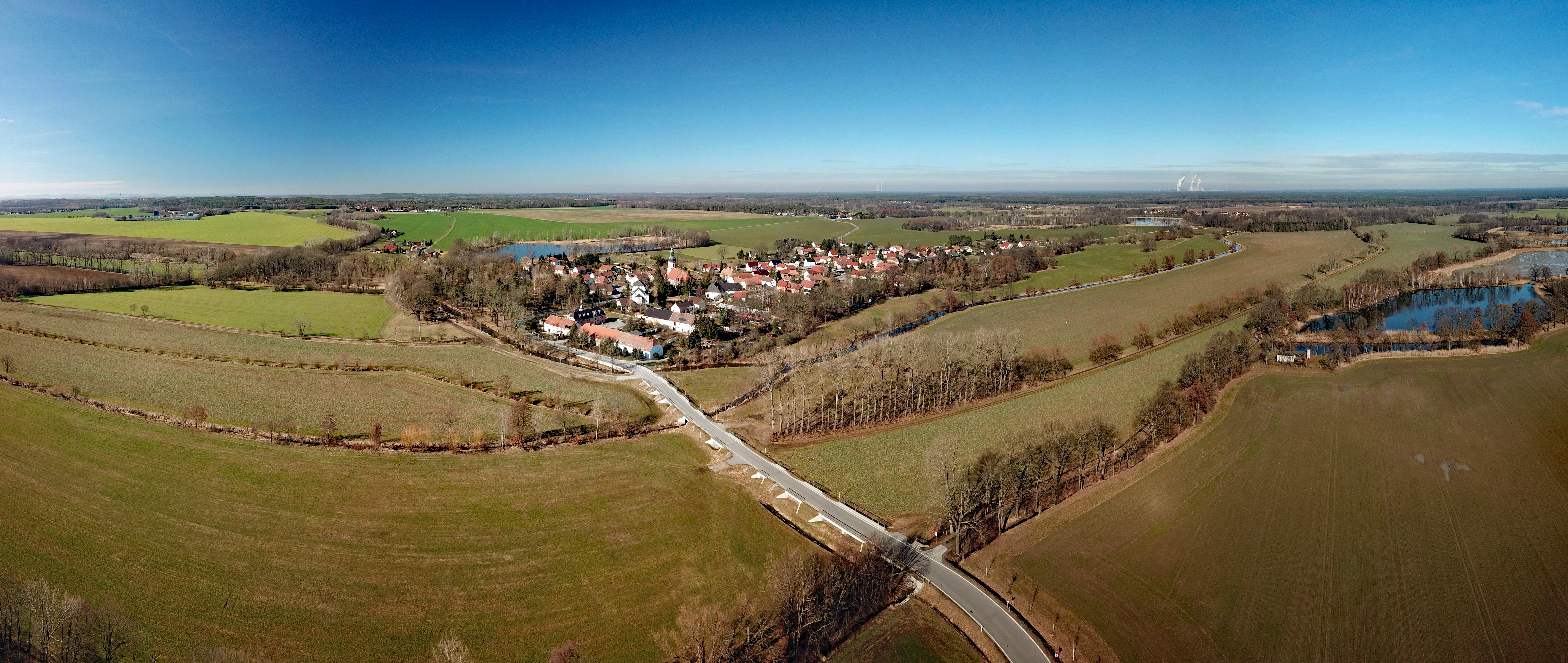 Klix, Großdubrau, Saxony, Germany Hornjoserbsce: Powětrowy wobraz Klukša